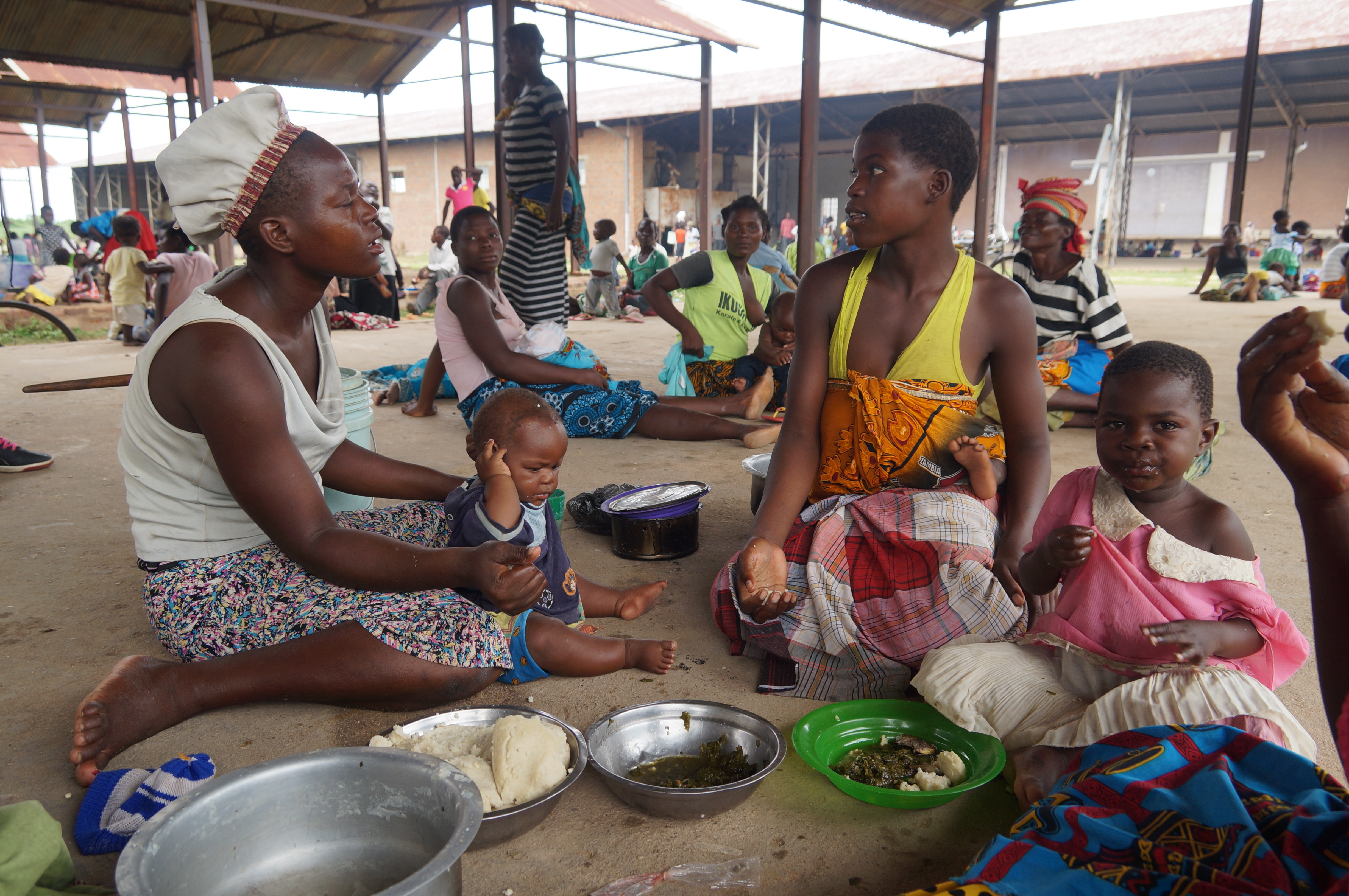 People displaced by flooding are seen at Bangula evacuation camp, in Nsanje, Malawi, March 12, 2019.